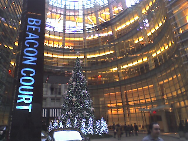 Atrium with the sign for the One Beacon Court residential section of the Bloomberg Tower in New York City.